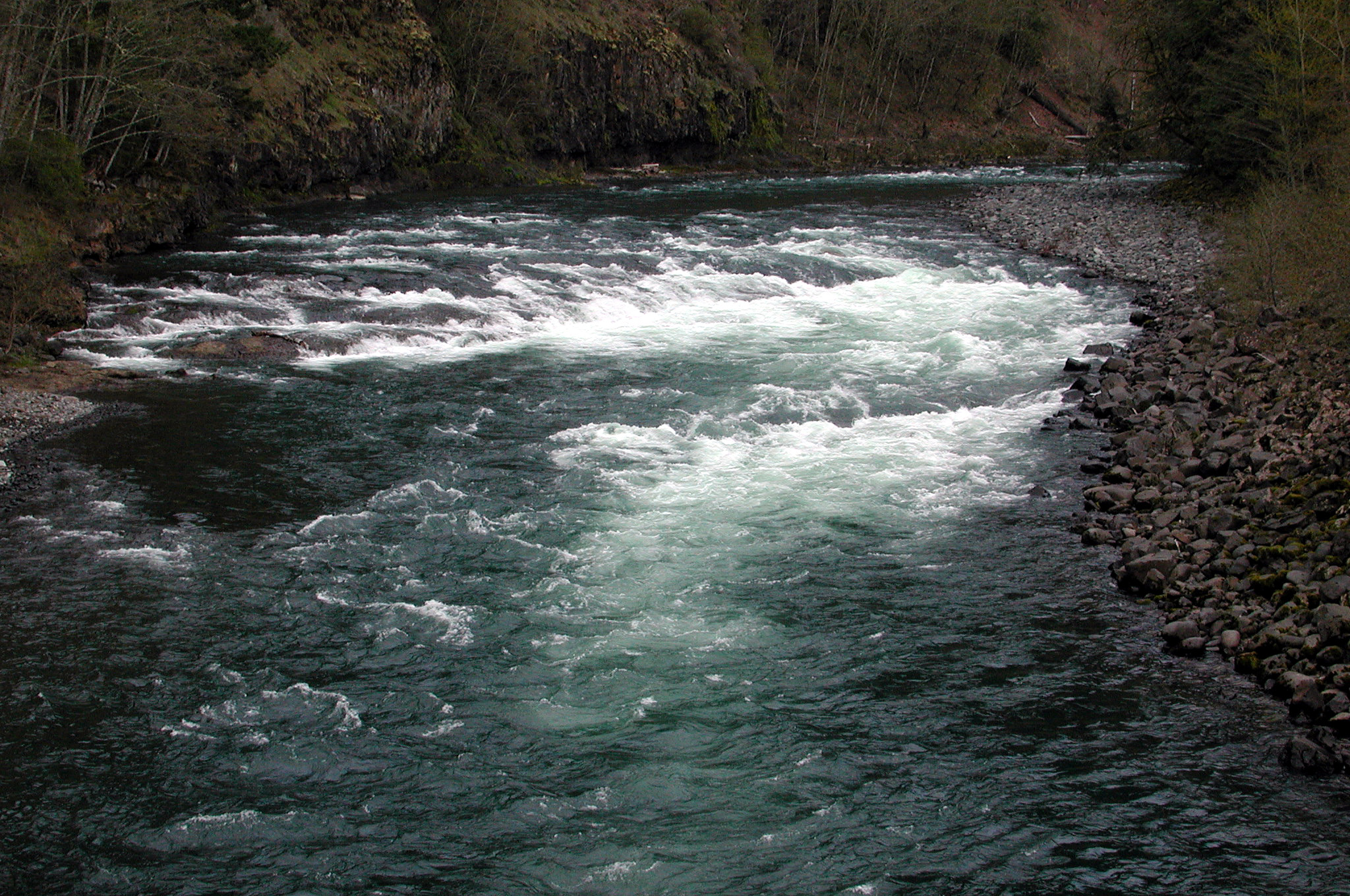 Clackamas River, Oregon, as seen from Highway 224 between Big Cliff and Fish Creek